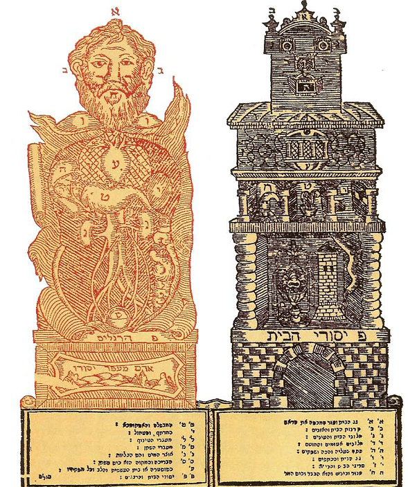 The House of Man: The dynamics of the sefiroth can be applied to any organism, system or transaction. In this 17th-century print, the design of a house and human anatomy are interpreted according to the principles of the tree of life.